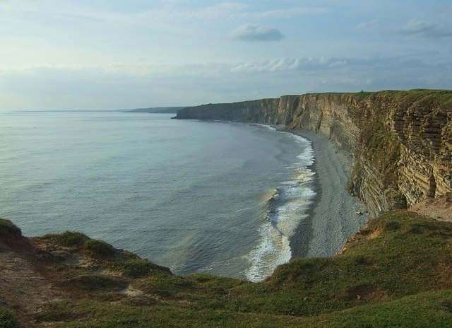 Late Evening View from Nash Point Cliff